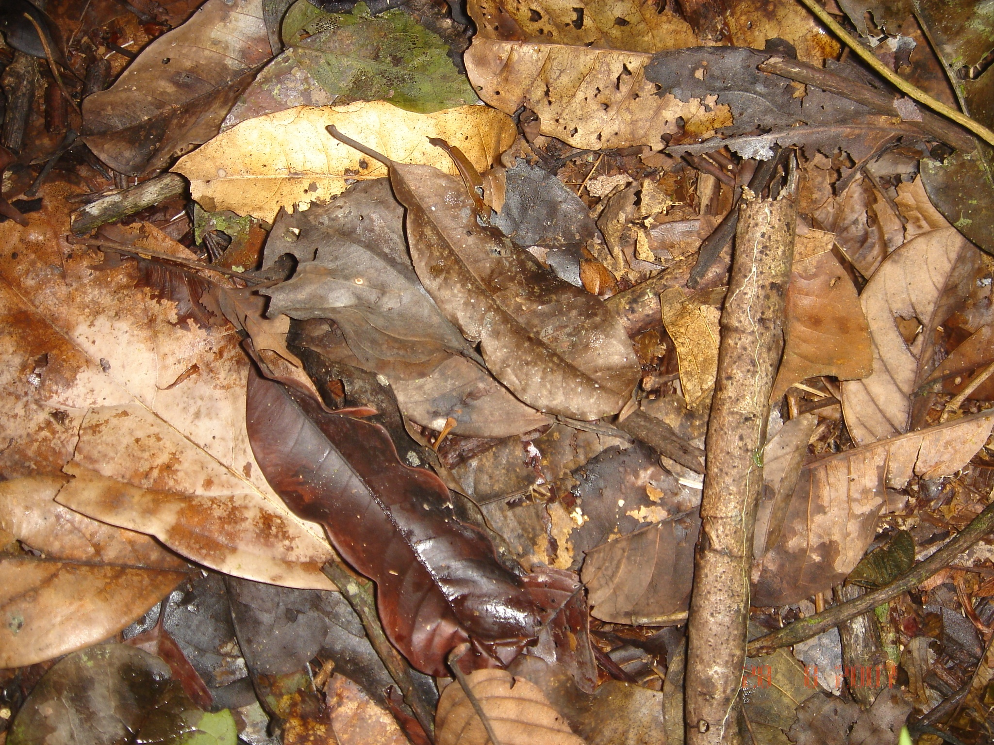 A well camouflaged frog in the Lower Rio Branco-Rio Jauaperi Extractive Reserve, Brazil. The frog is to the left of the top end of the vertical stick. It is about the same size as the end of the stick. [TIP: Click on the photo to enlarge it!] Roll over the image to find its location, or click here to see the frog highlighted.